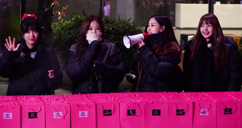 Black Pink at Guerilla Fan Meeting on December 6, 2017.